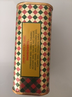 Curry powder - ingredients.